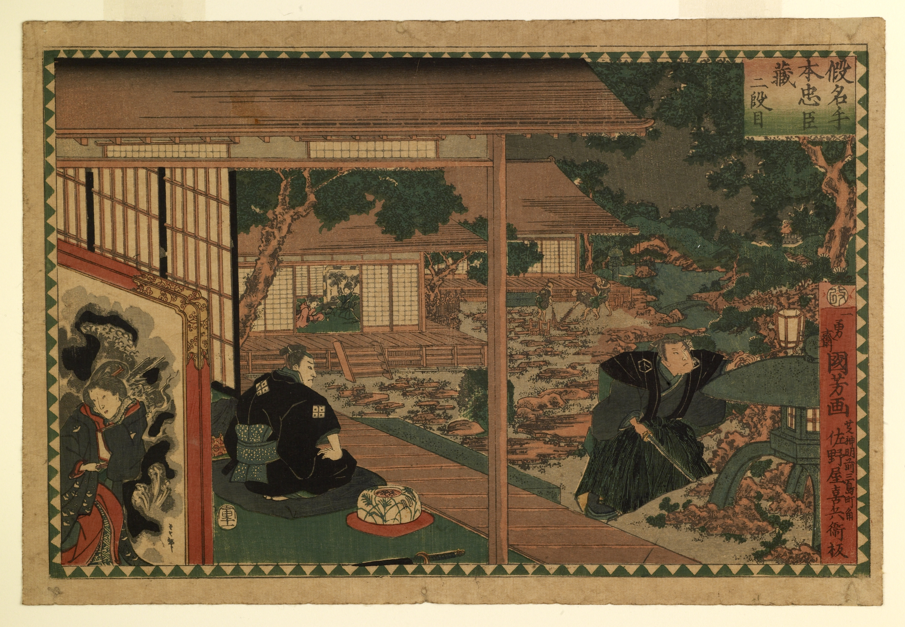 The shogun of Japan has asked two provincial rulers to make arrangements for hospitality on the occasion of a visit from the shogun's younger brother. They have been told to follow the instructions of the governor of Kamakura, the contemptible Moronao. One of the two rulers, Wakasonosuke (left) expresses his feelings about Moronao. "I shall not be dying on the field of battle, but if I can kill that one man, Moronao, it will benefit the nation." Wakanosonosuke's chief retainer (right) takes a sword, strops it with a sandal, slashes a pine branch, and says, "My lord, act decisively, as I have done!"